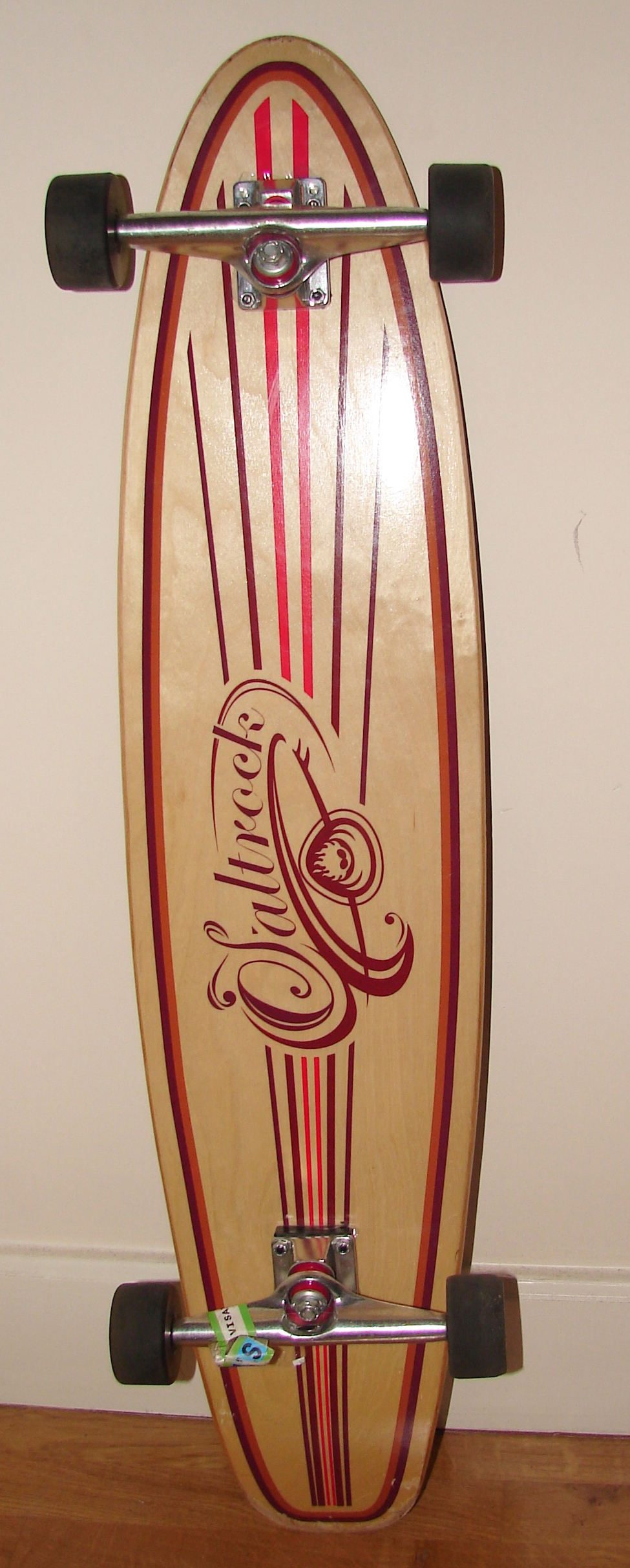 A 40 inches long longboard (skateboard)